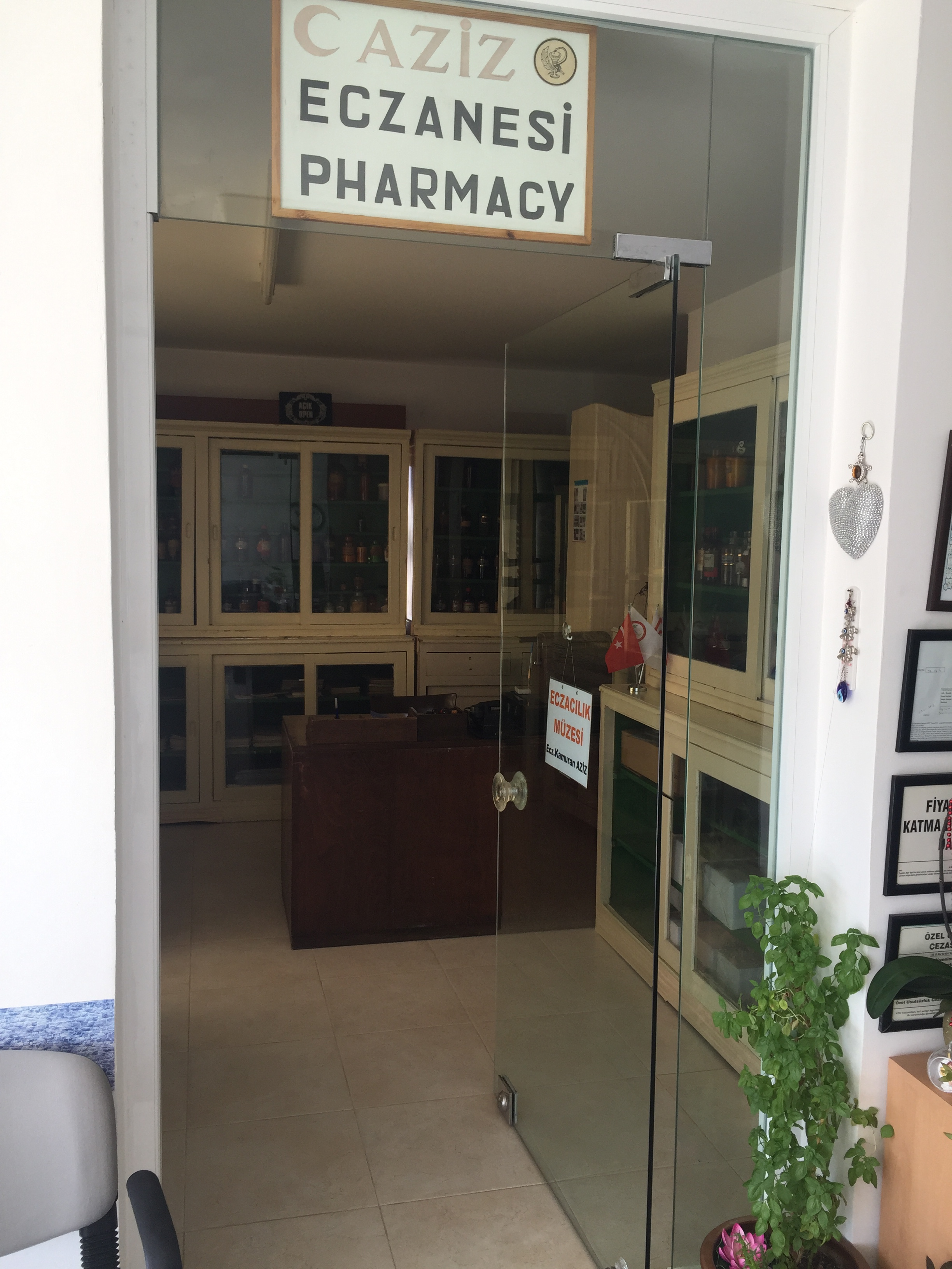 The Pharmacy Museum in North Nicosia, located at the Turkish Cypriot Pharmacists' Association headquarters, exhibiting artifacts from Kamran Aziz's pharmacy. This photo shows the entrance to the museum.